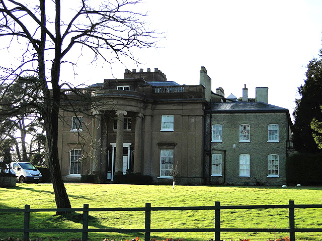 Sibton Hall